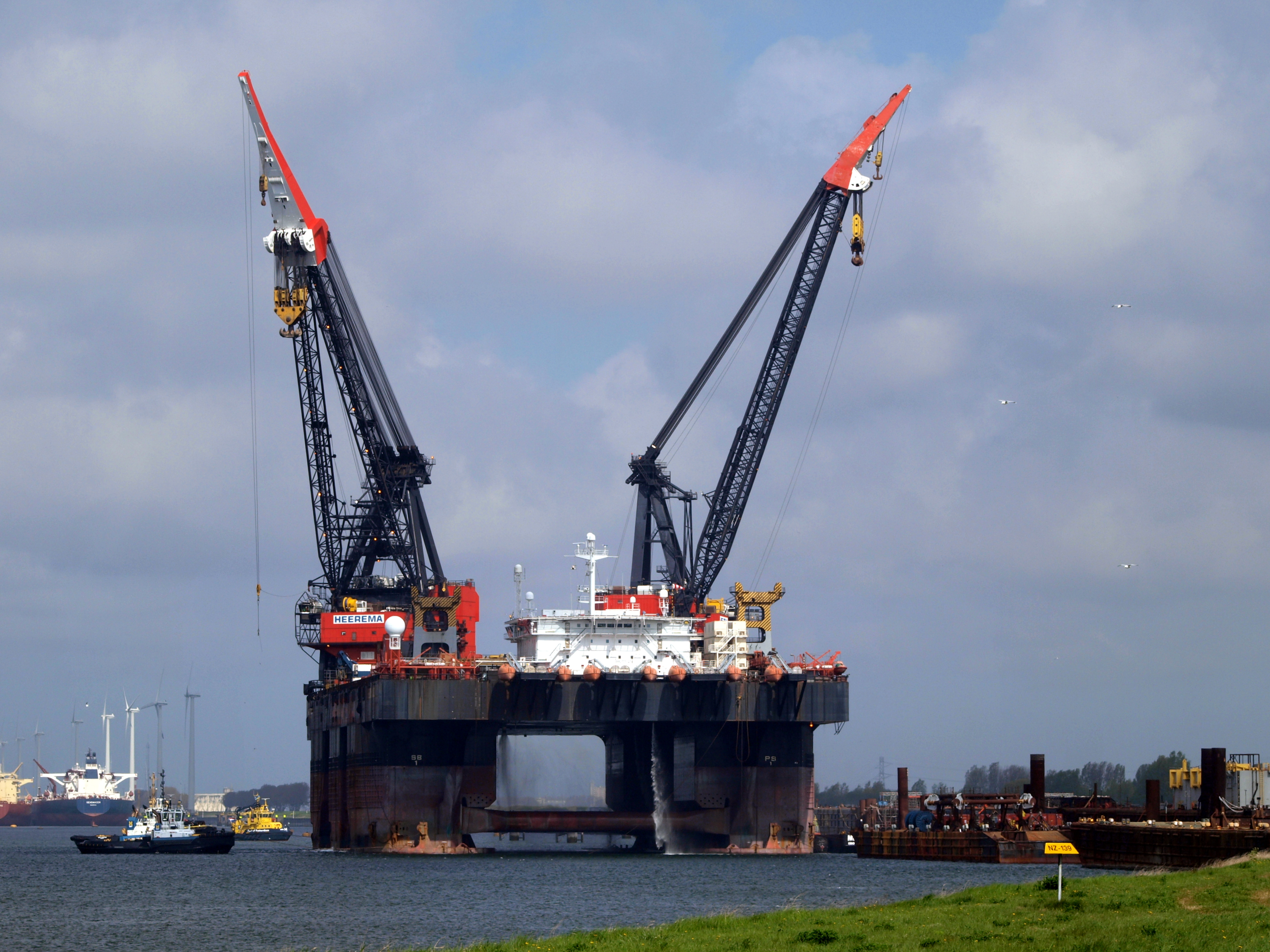 Photographed at or near the Port of Rotterdam.